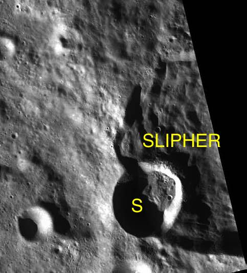 Part of the chart LAC-17 used for the presentation.